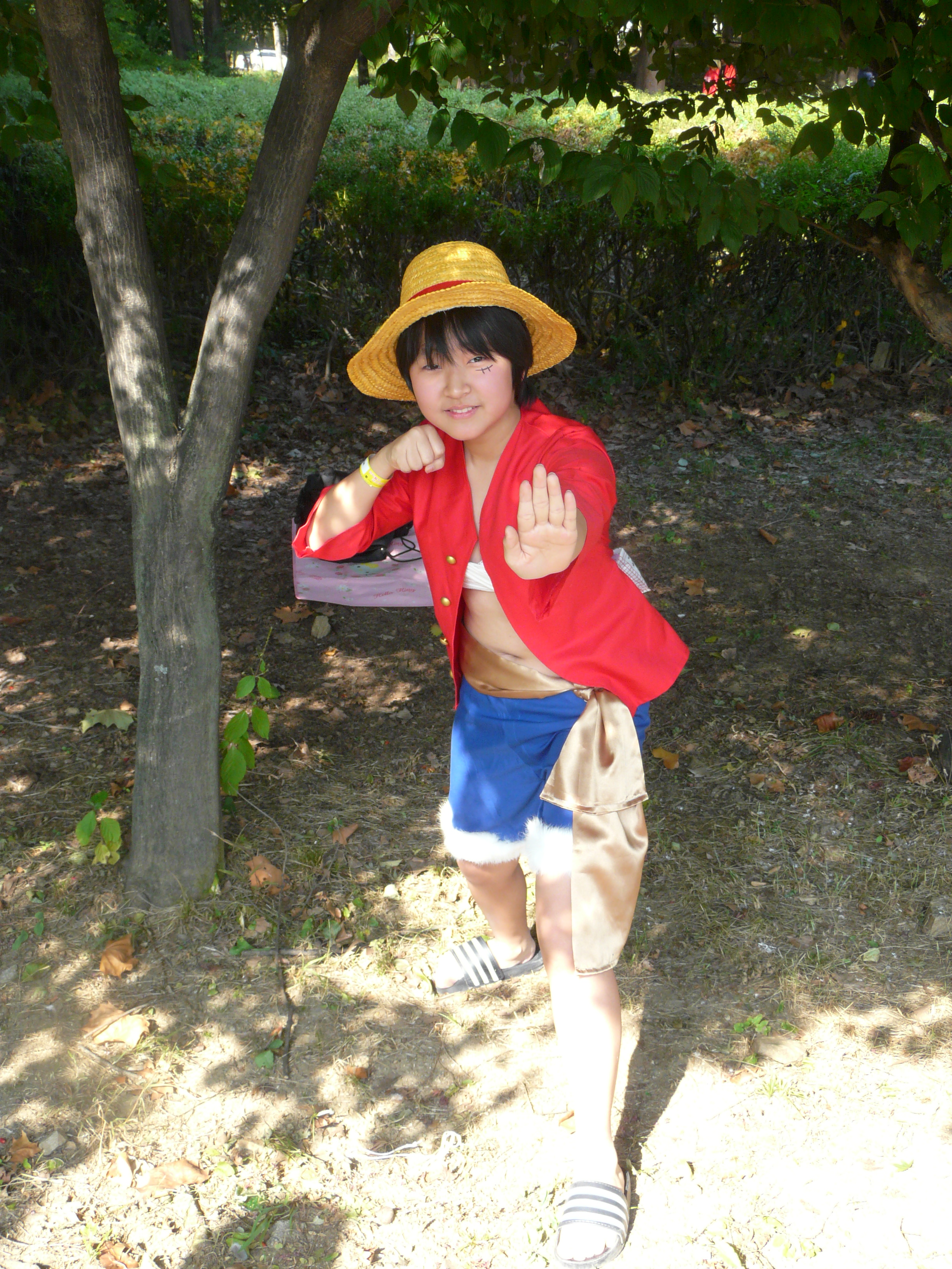 Comic World Seoul, October 2014